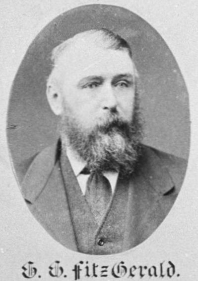 Gerard George Fitzgerald from a montage of MPs in 1882